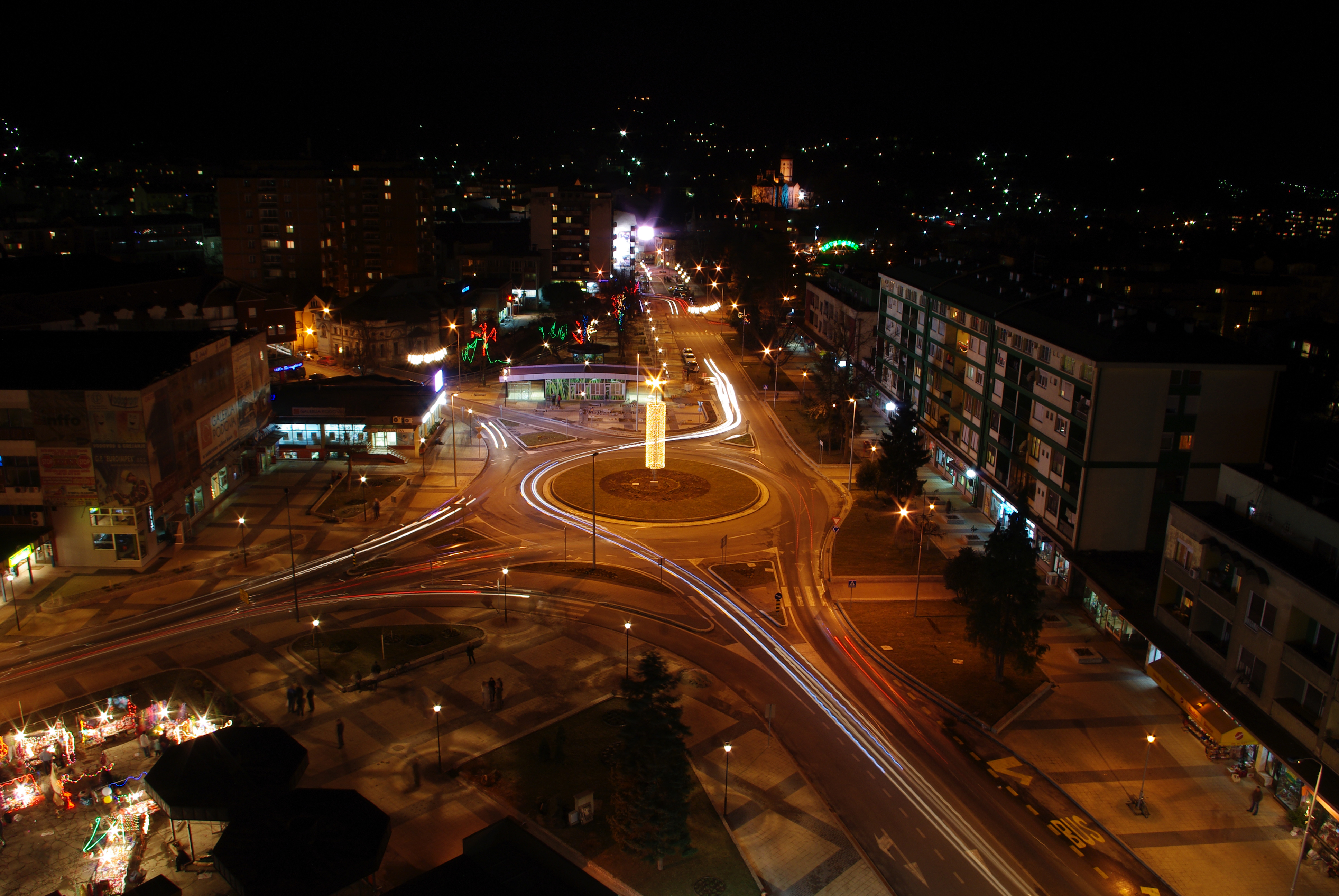 New Vuk Karadzic Square in Loznica, Serbia.